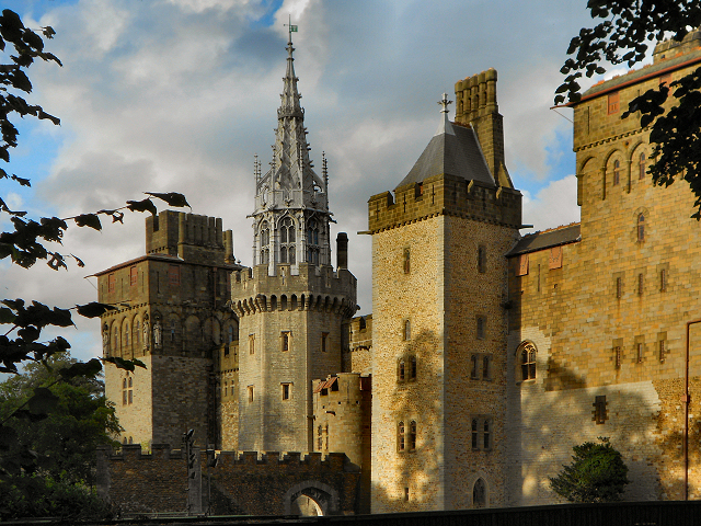 Cardiff Castle viewed from the Animal Wall on Castle Street.